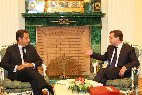 THE KREMLIN, MOSCOW. With French President Nicolas Sarkozy.